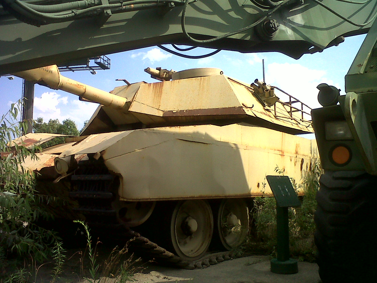 Front view of an Australian Centurion tank mocked up to resemble an M1A1 Abrams for the film Courage Under Fire, taken at the Russell Military Museum